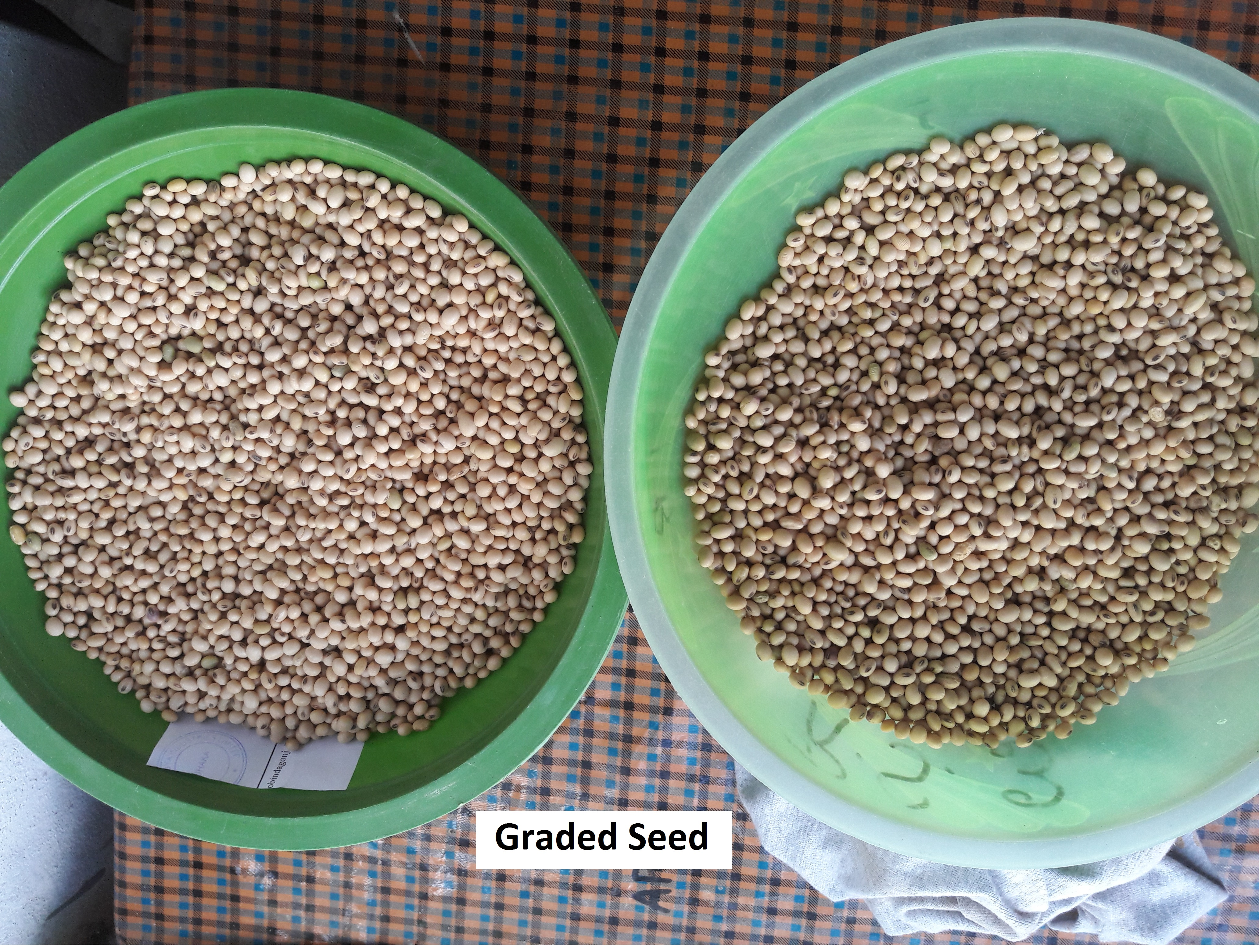 Graded Soyabean Seed